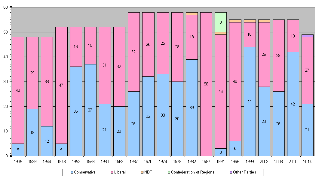 Image created by me from a graph produced in MS Excel, using data from List of New Brunswick general elections (post-Confederation). Tompw 19:14, 2 December 2006 (UTC)